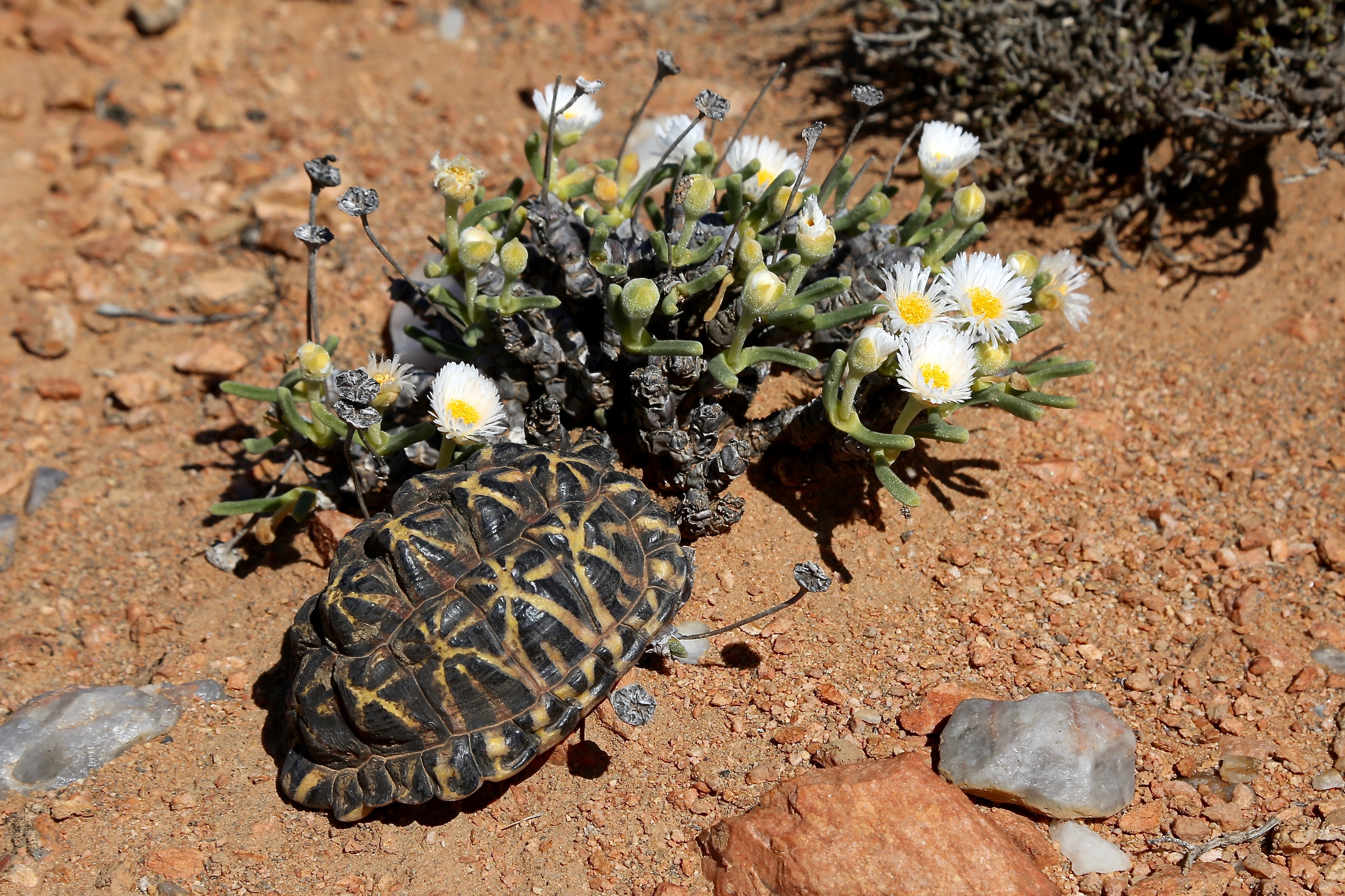 Riethuis-Wallekraal quartz field in Namaqua National Park, Northern Cape, South Africa